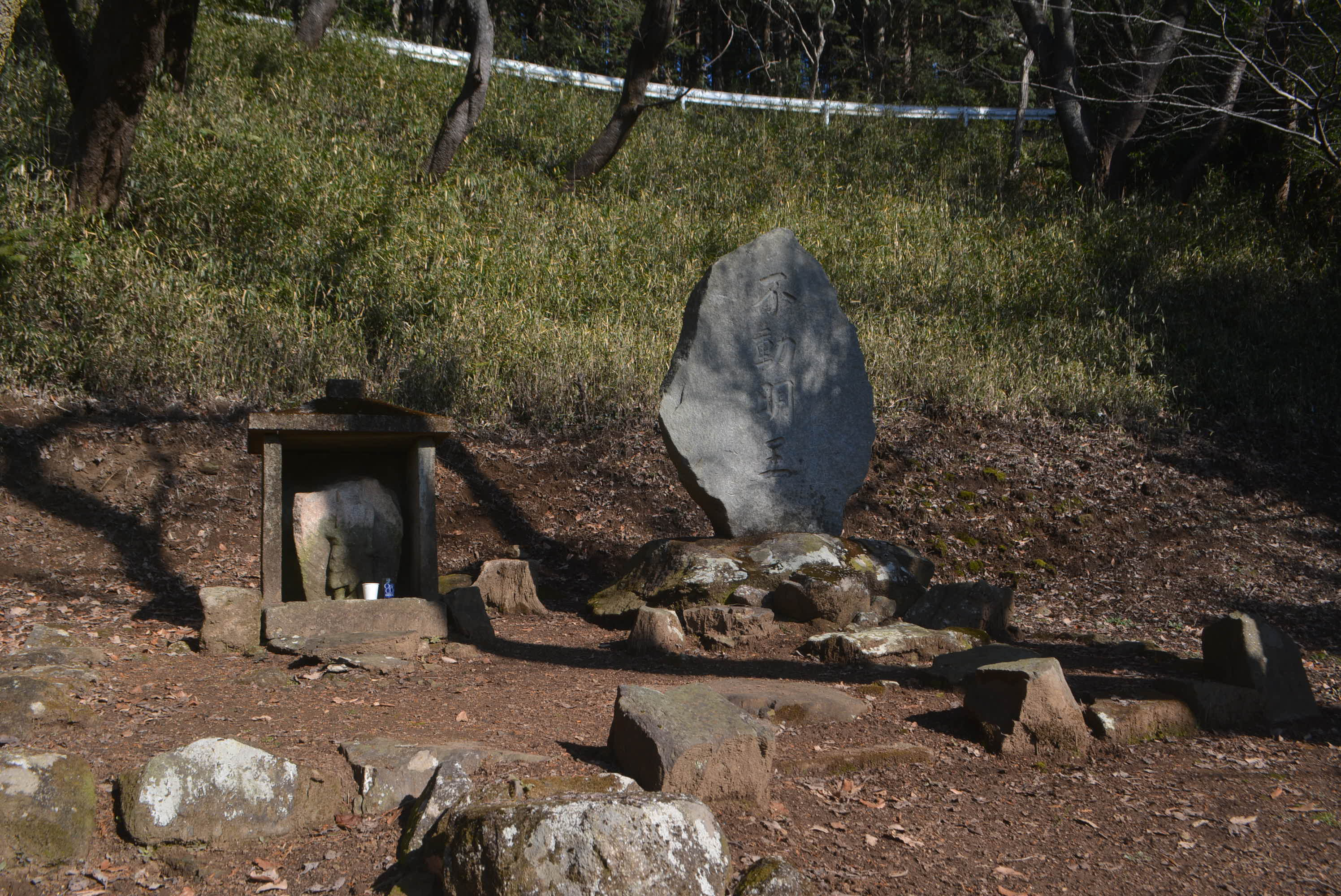 Fudo-myo-ou,Fudo pass,Tsukuba city,Japan